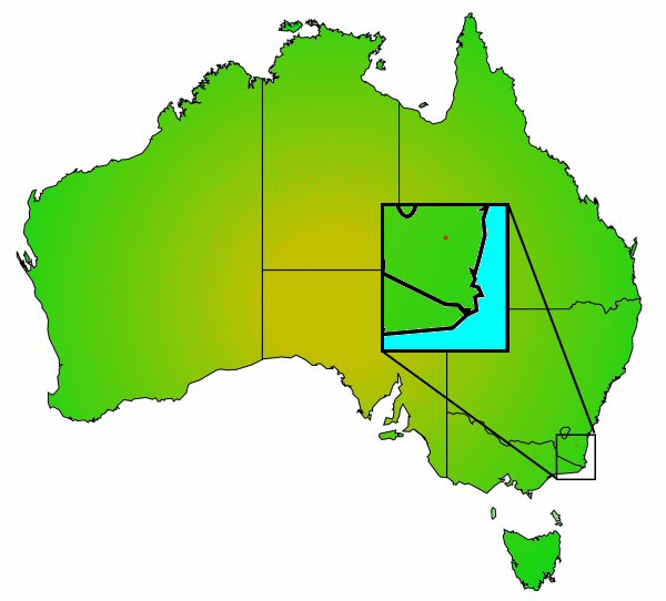 This is distribution map for the Australian freshwater fish Galaxias brevissimus, the short tail galaxias